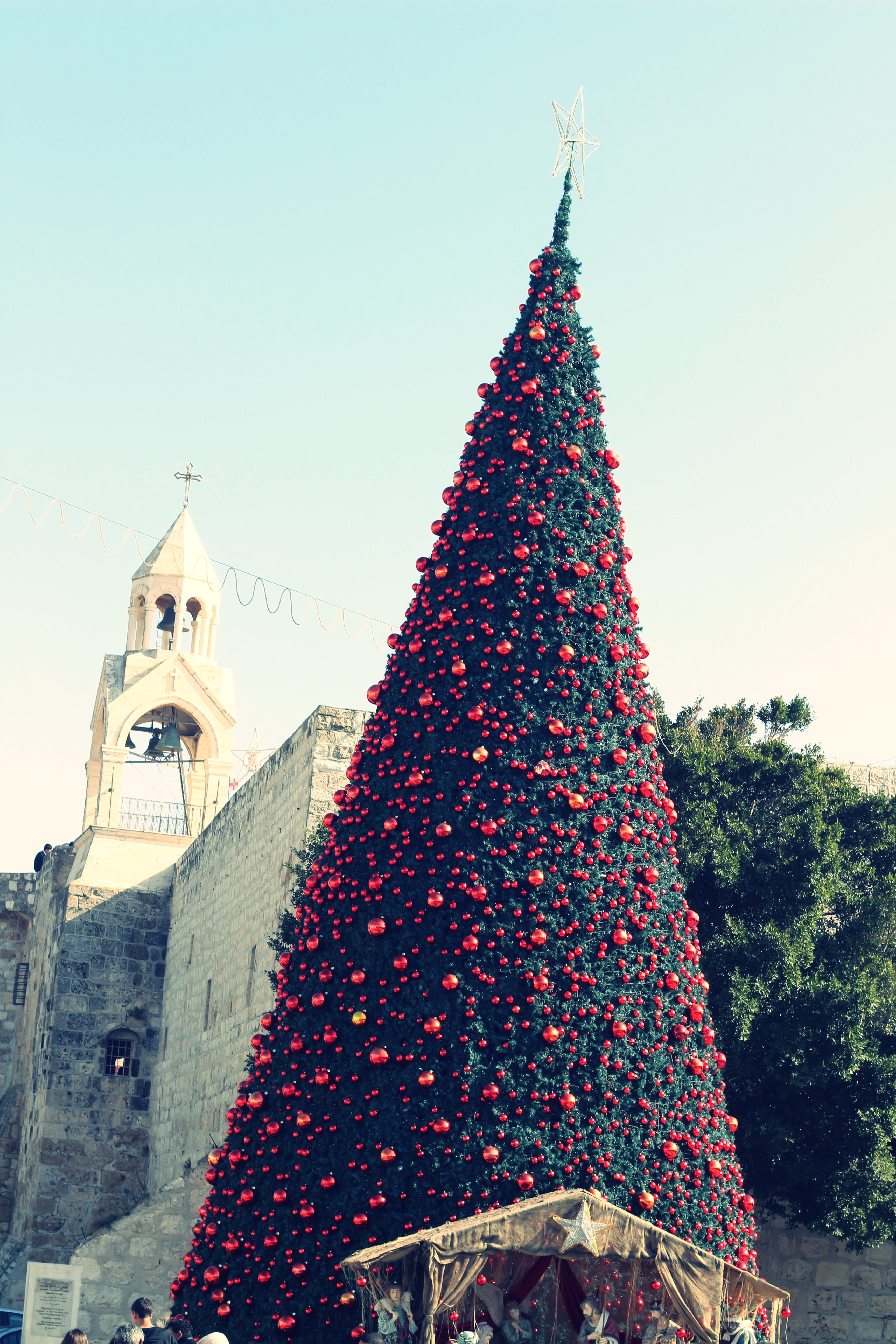 Christmas tree in Bethlehem, behind it Church of the Nativity. Photo taken in 18 January 2014.